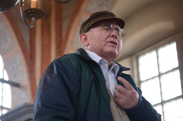 Pinchas Gutter praying at Tykochen synagogue on the March of the Living *Yossi Zeliger from “Witness: Passing the Torch of Holocaust Memory to New Generations